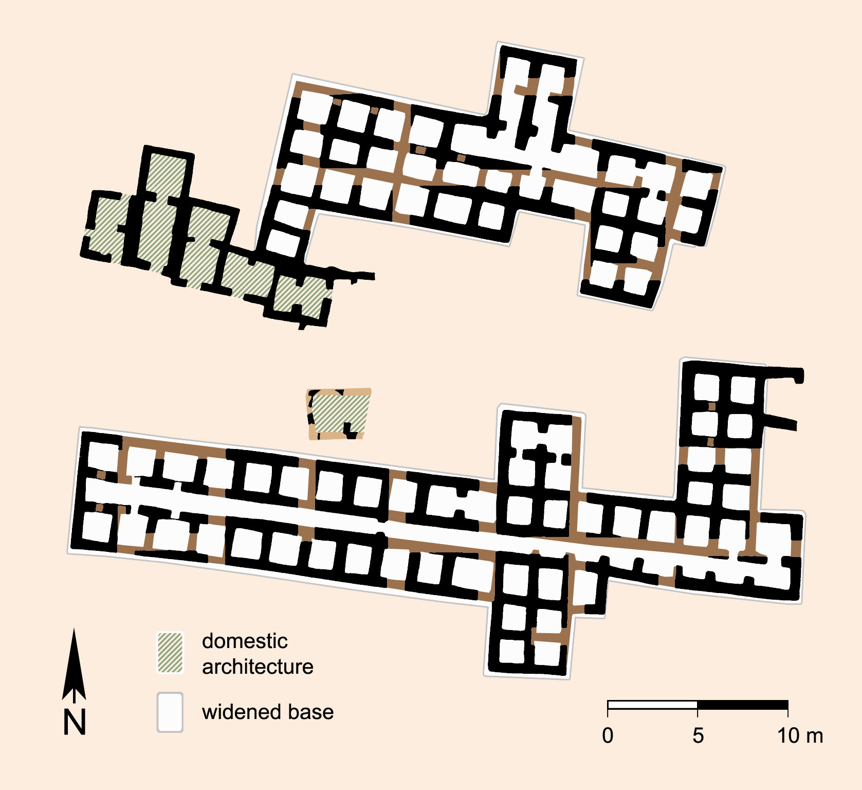 Layout of the storerooms at Umm Dabaghiyah (level III-IV)